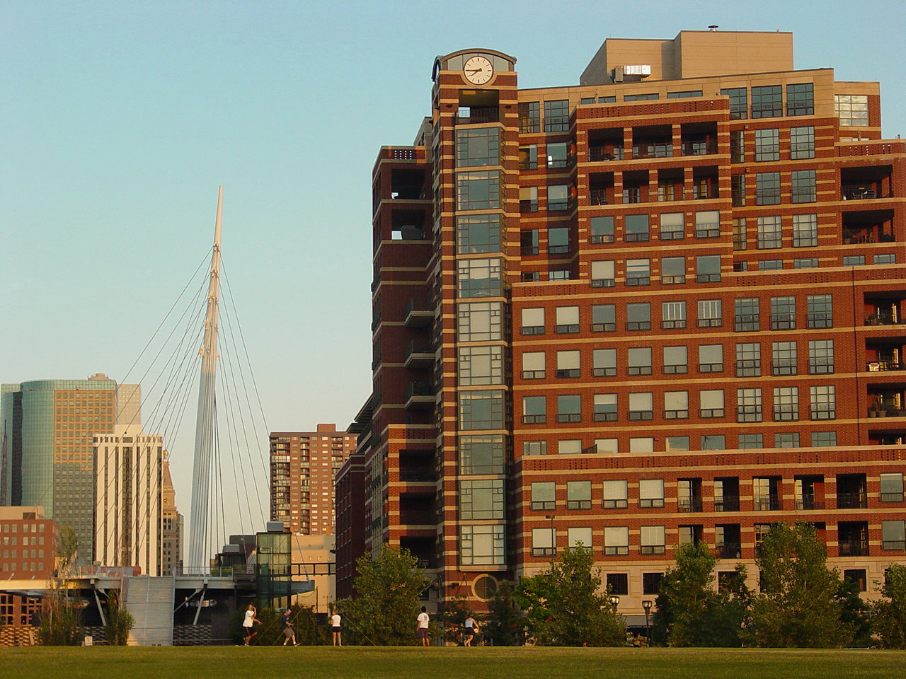 Denver Millennium Bridge Denver's Millennium Bridge connects Riverfront Park in the Central Platte Valley neighborhood with downtown's 16th Street pedestrian mall. Photographer: Cher Skoubo